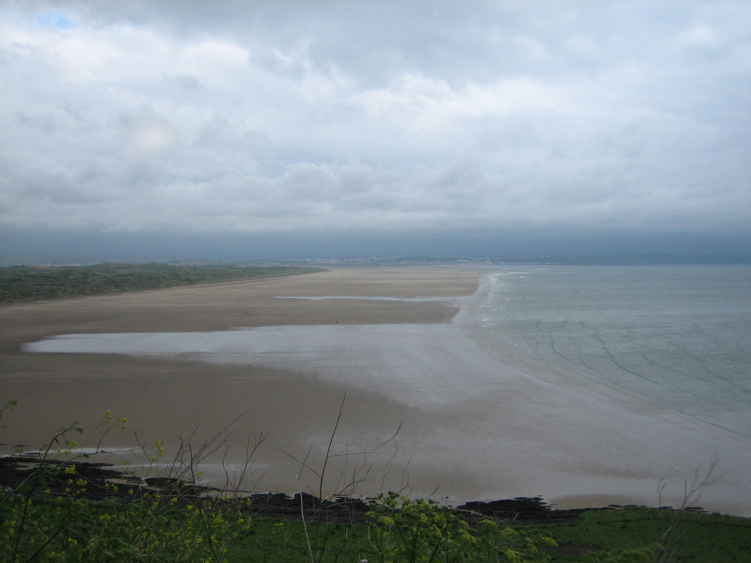 Saunton Sands, Devon, UK